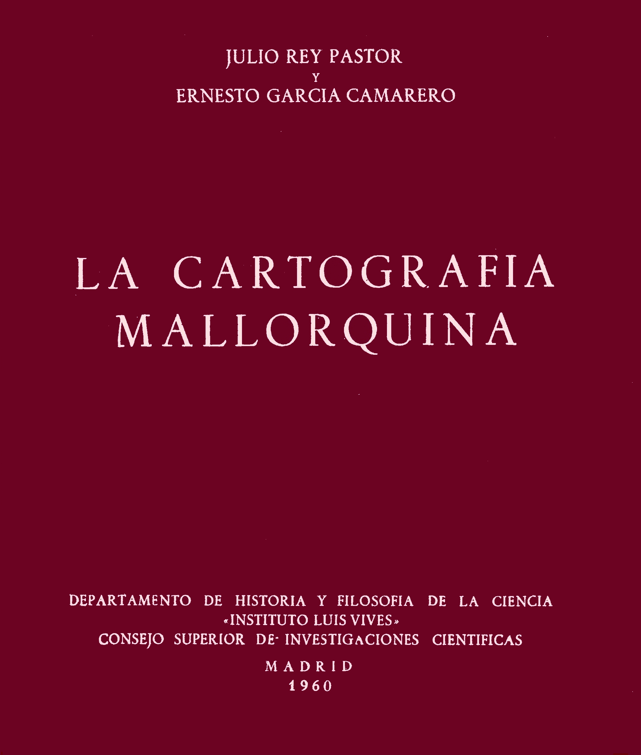 Reconstruction of the cover of the book "La cartografía mallorquina by Julio Rey Pastor & Ernesto García Camarero Master work about portolans (special study on Majorcan school of map makers)